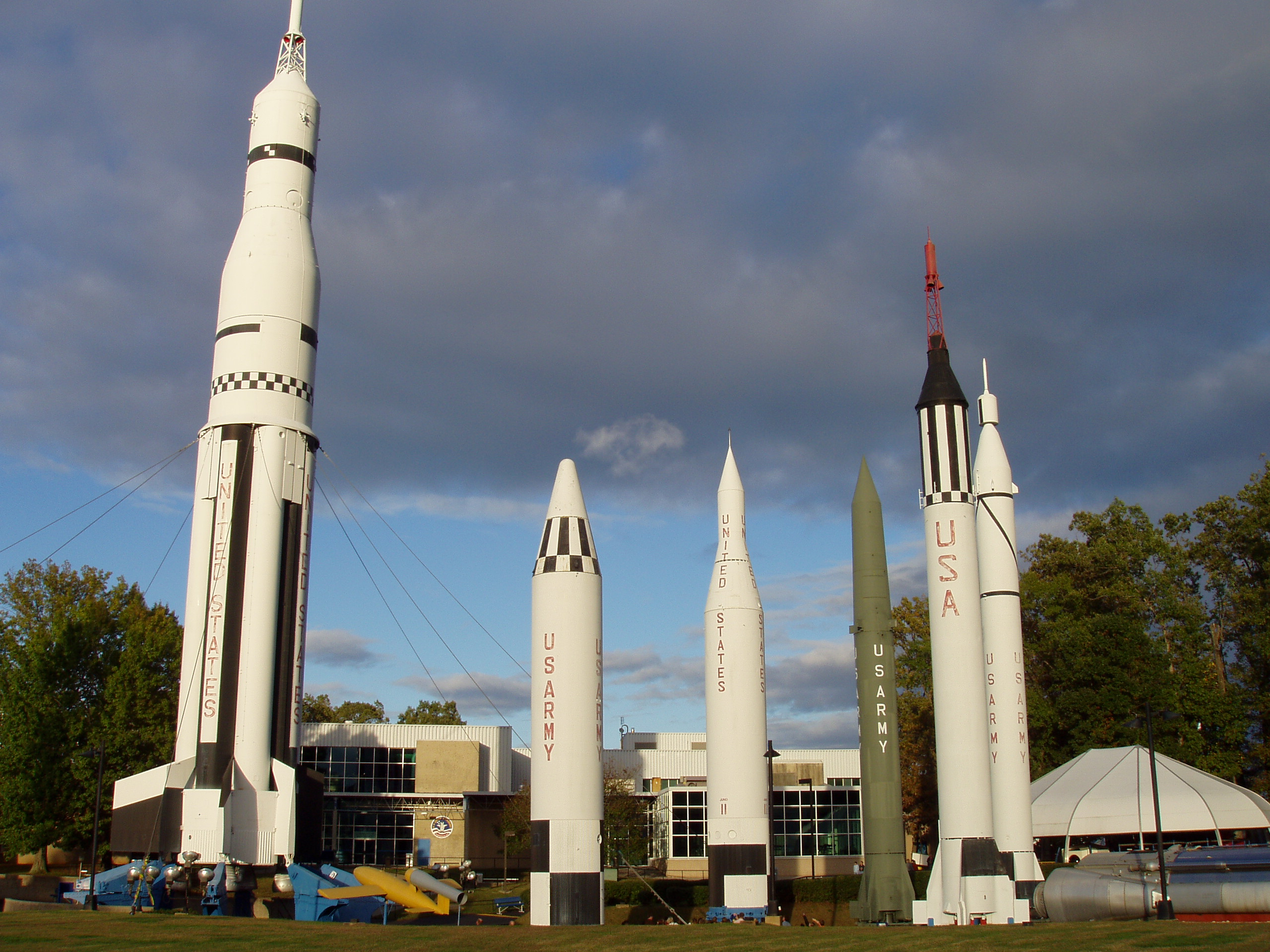 Rockets in an outdoor museum in Huntsville, Alabama. Photograph taken by me.